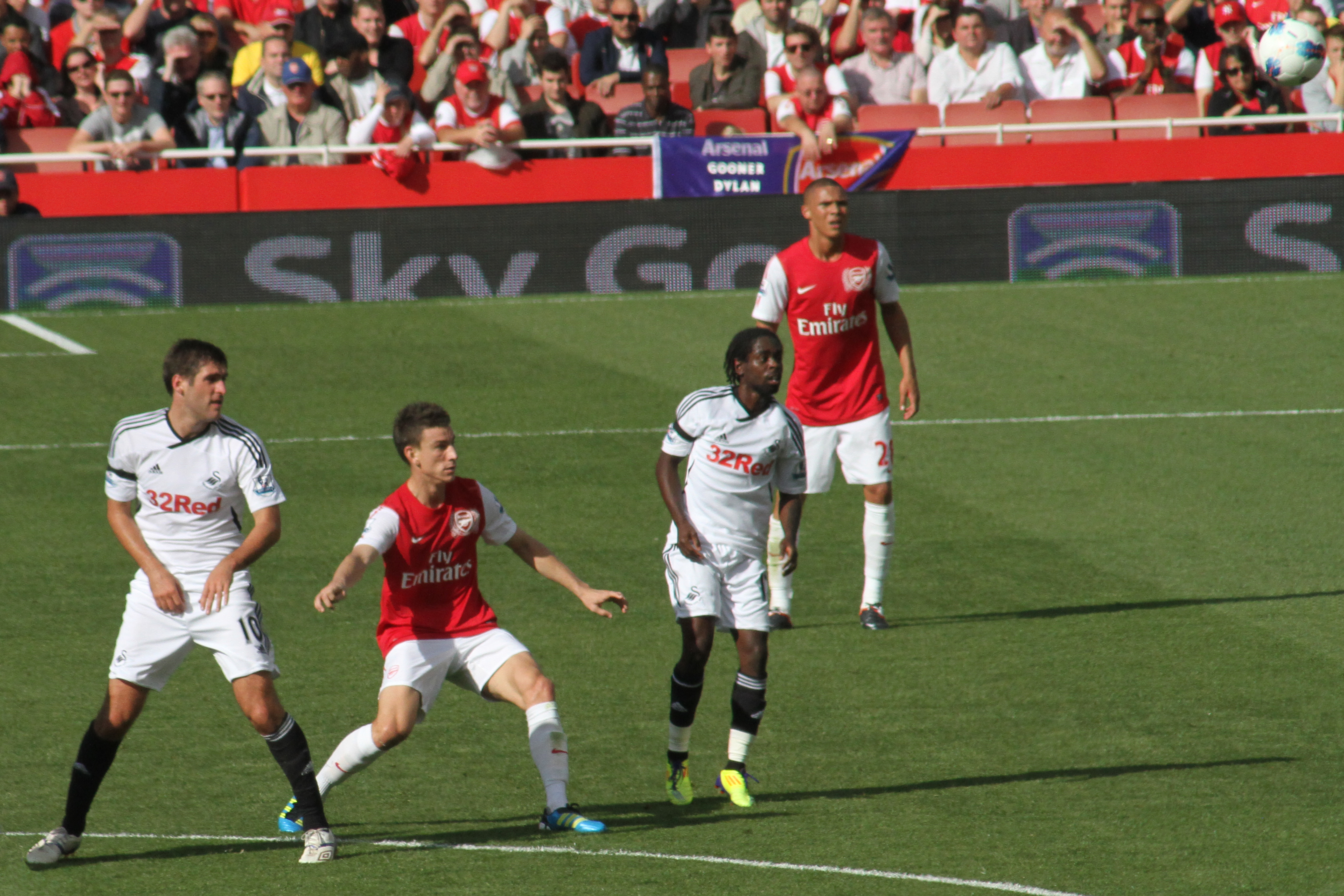 From left to right, Danny Graham, Laurent Koscielny, Nathan Dyer and Kieran Gibbs, Arsenal vs Swansea, 2011.